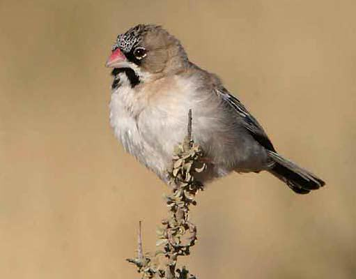 Scaly-feathered Weaver (Sporopipes squamifrons) in Etosha National Park